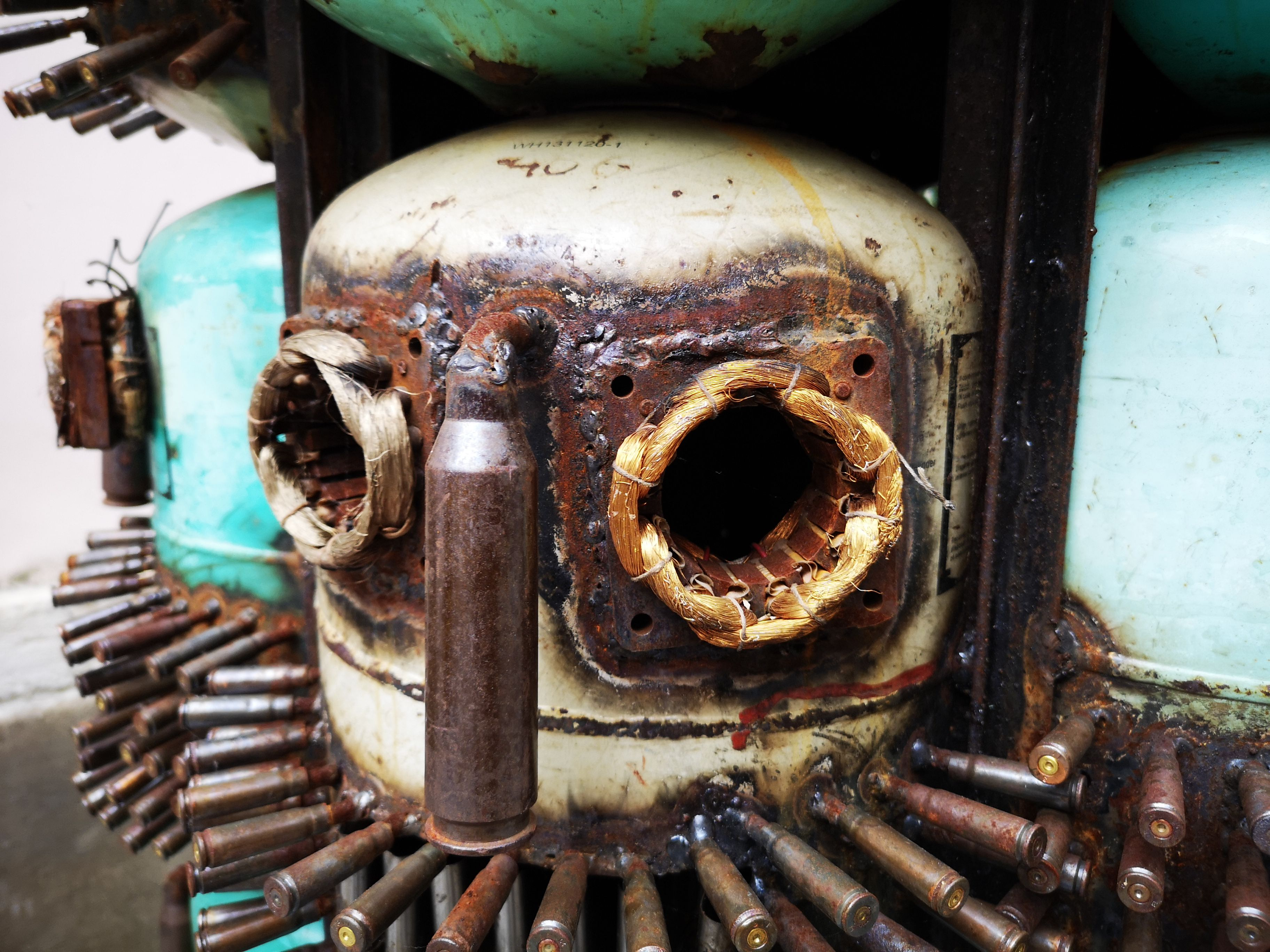 Part of an art installation by Gonçalo Mabunda - an artist from Mozambique presented at the Biennale in Venice, Italy.